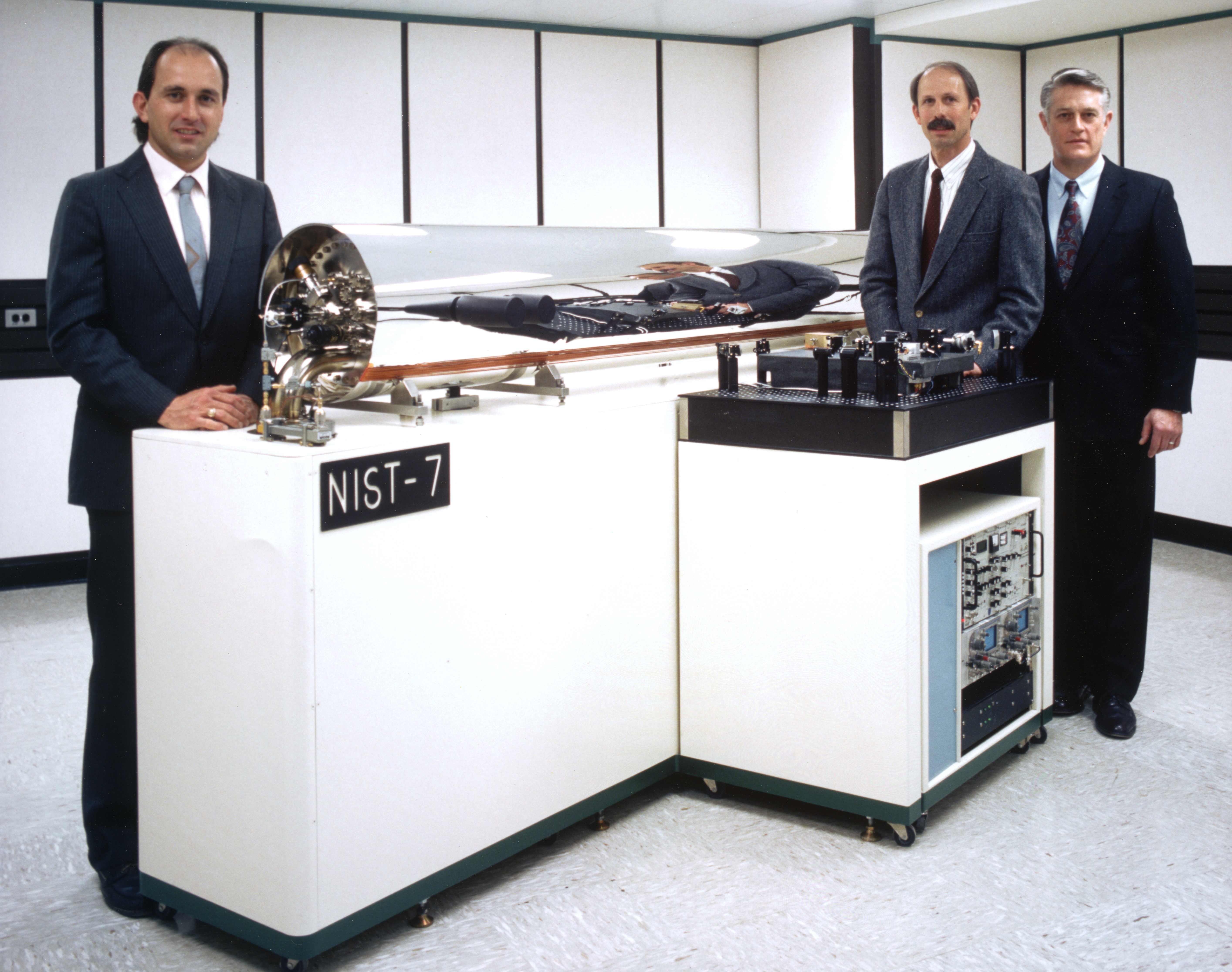 NIST-7, the seventh generation of atomic clocks at the National Institute of Standards and Technology, and three of the researchers who spent seven years developing one of the world's most accurate clocks. From left to right, John P. Lowe, Robert E. Drullinger, the project leader, and David J. Glaze.